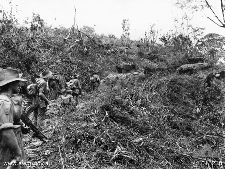 New Guinea. 1943-11-27. Australian troops moved in behind Matilda tanks for a dawn attack on the Japanese held village of Sattelberg. n.b. This picture was taken during the actual attack.